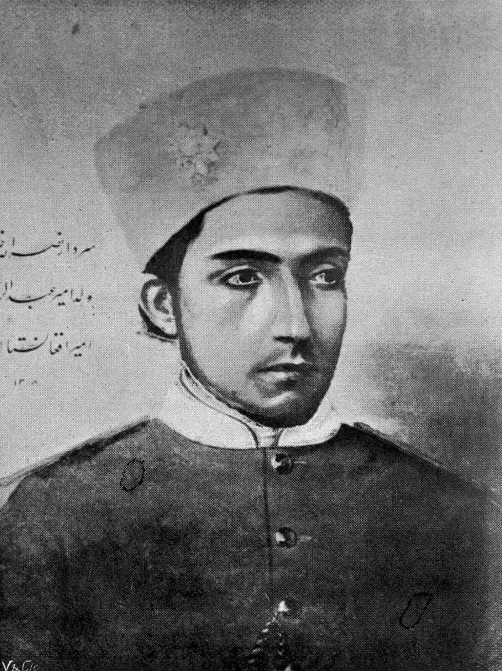 Prince Nasrullah Khan, son of King Abdur Rahman Khan of Afghanistan.